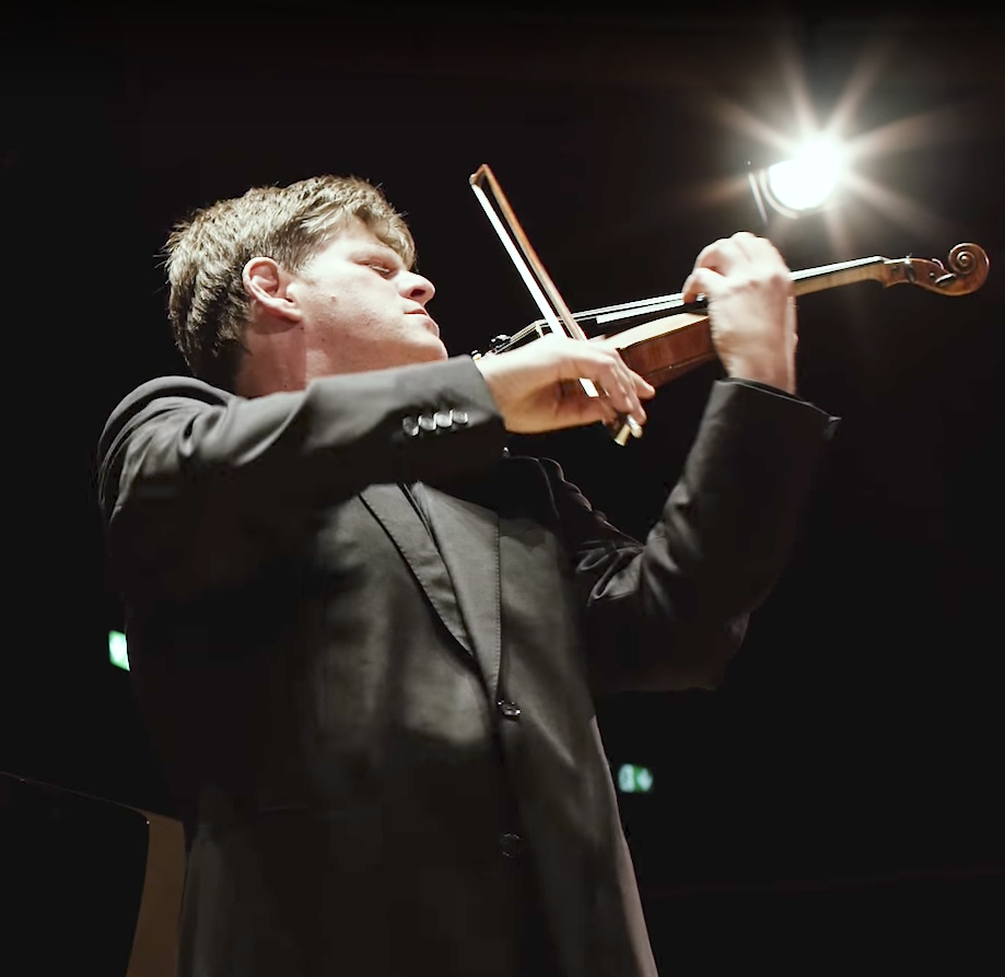 Guy Braunstein plays the violin